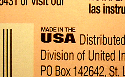 Made in USA label